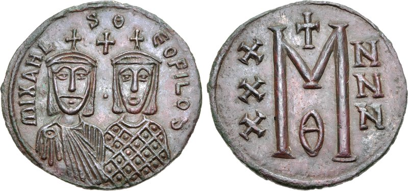 Michael II the Amorian, with Theophilus. 820-829. Æ Follis (30mm, 7.67 g, 6h). Constantinople mint. Struck 821-829. mIXAHL S Ө ЄOFILOS, crowned facing busts of Michael, wearing chlamys and short beard, and Theophilus, wearing loros; cross above / Large M; cross above, X/X/X-N/N/N across field, Ө below.